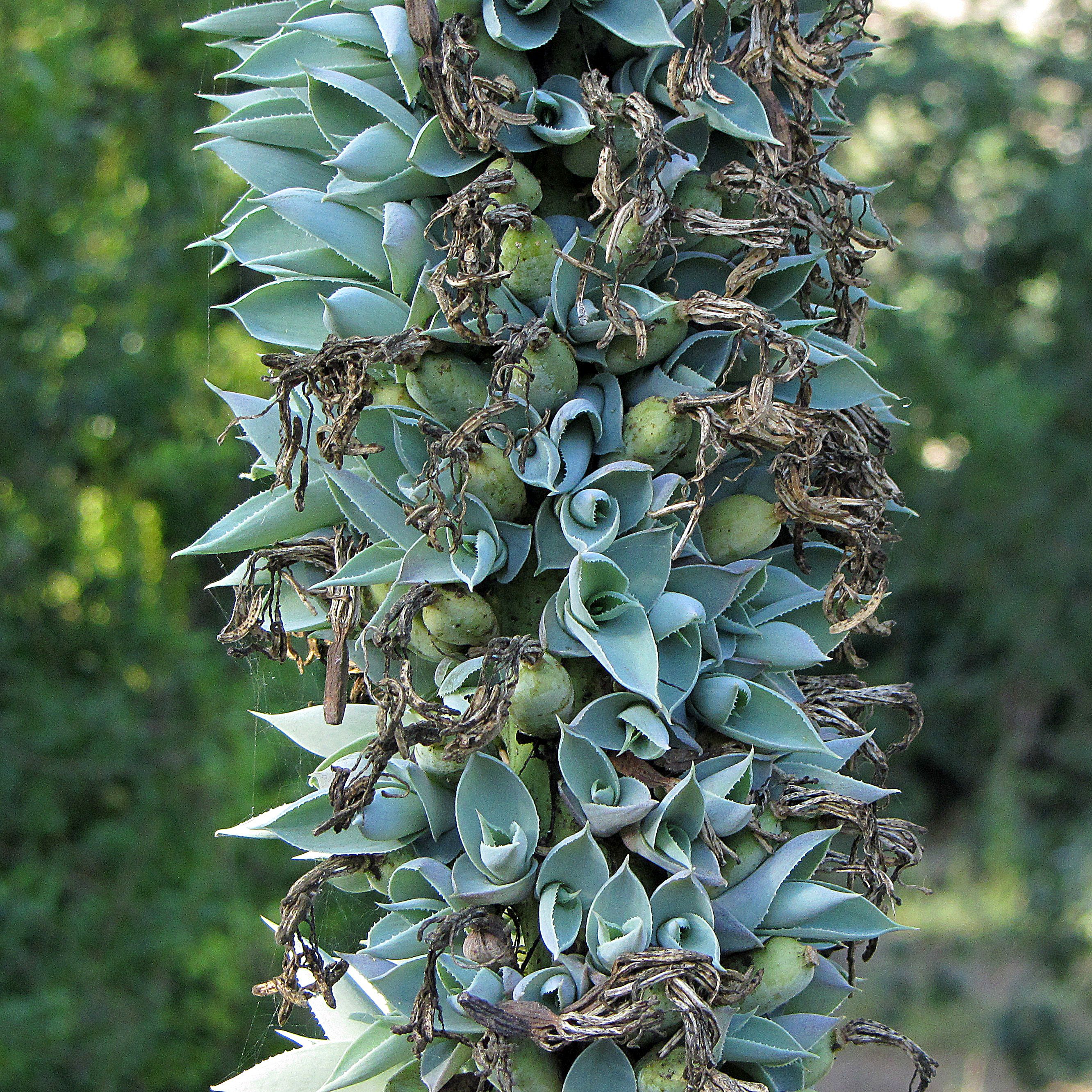 Agave vilmoriniana - Bulbils on the floral stem.